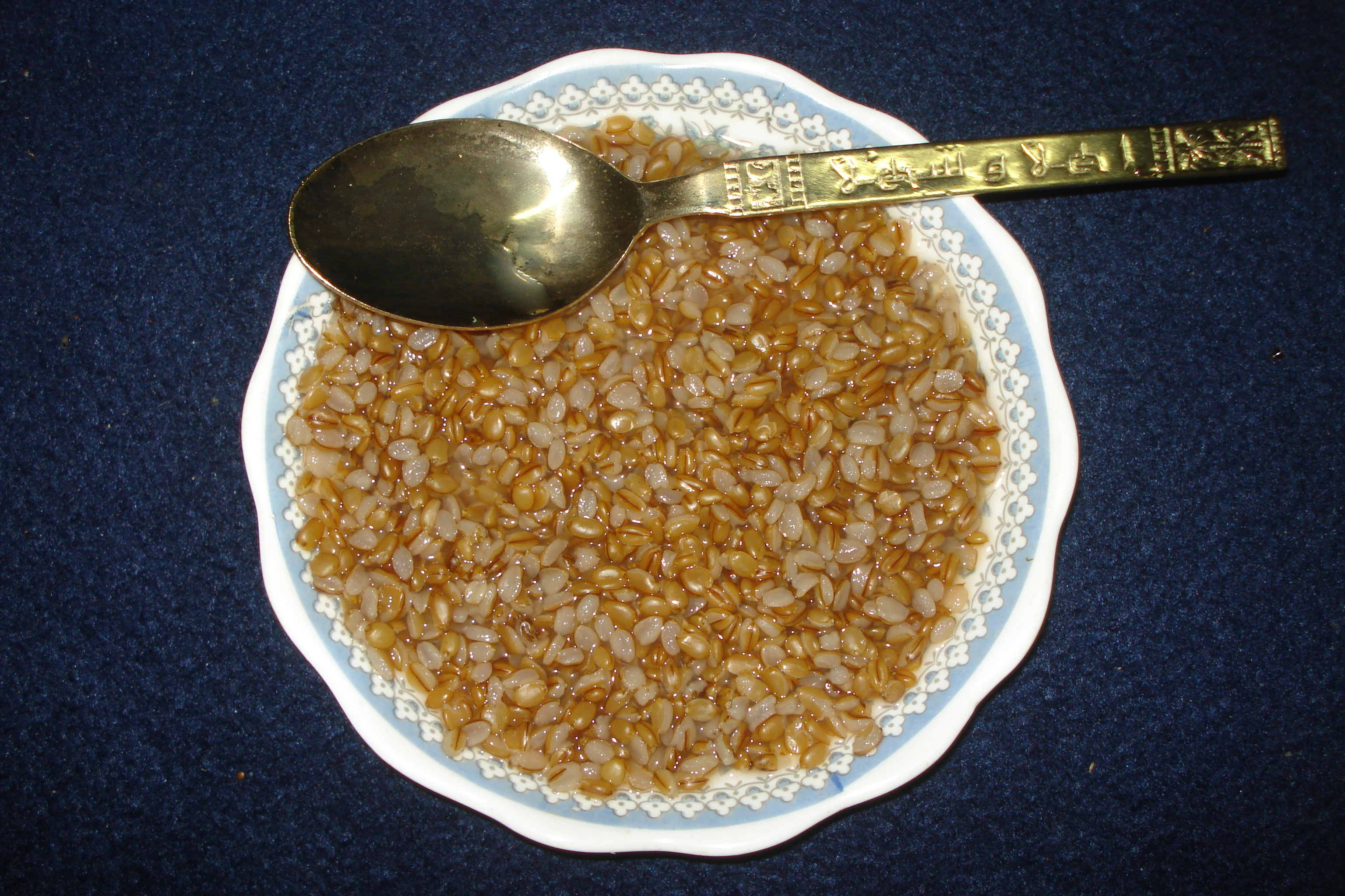 Bamboo Rice have medicinal value. Boiled Bamboo rice is seen in the picture.